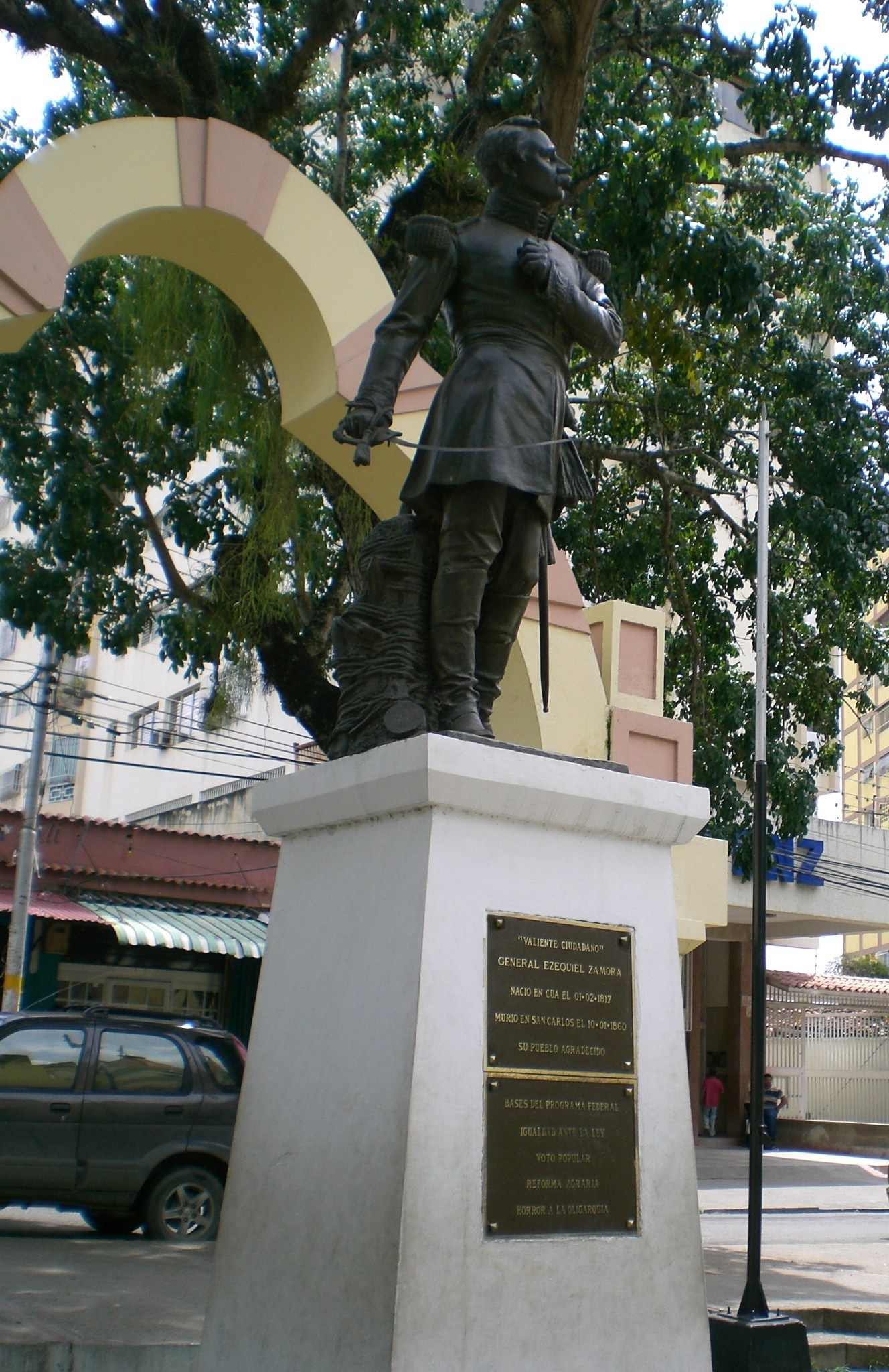 Ezequiel Zamora statue, Cúa, Venezuela.